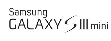 Logo of the Samsung Galaxy S III Mini smartphone.